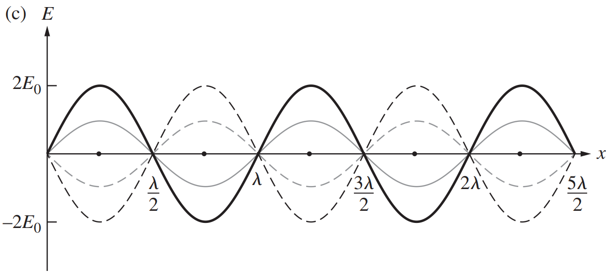 Standing wave